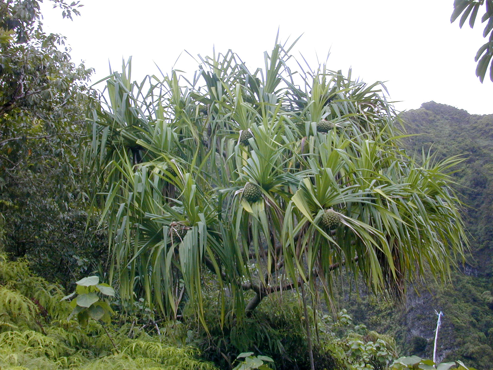 Pandanus tectorius growing on windward O'ahu, Hawaiian Islands. Photographed by Eric Guinther (Marshman at en.wikipedia) on June 8, 2004.